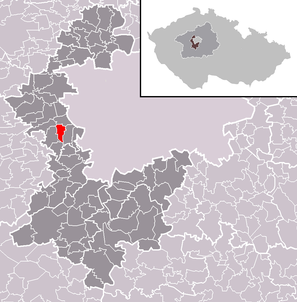 Location of Dobříč municipality within Prague-West District and administrative area of Černošice as a Municipality with Extended Competence.